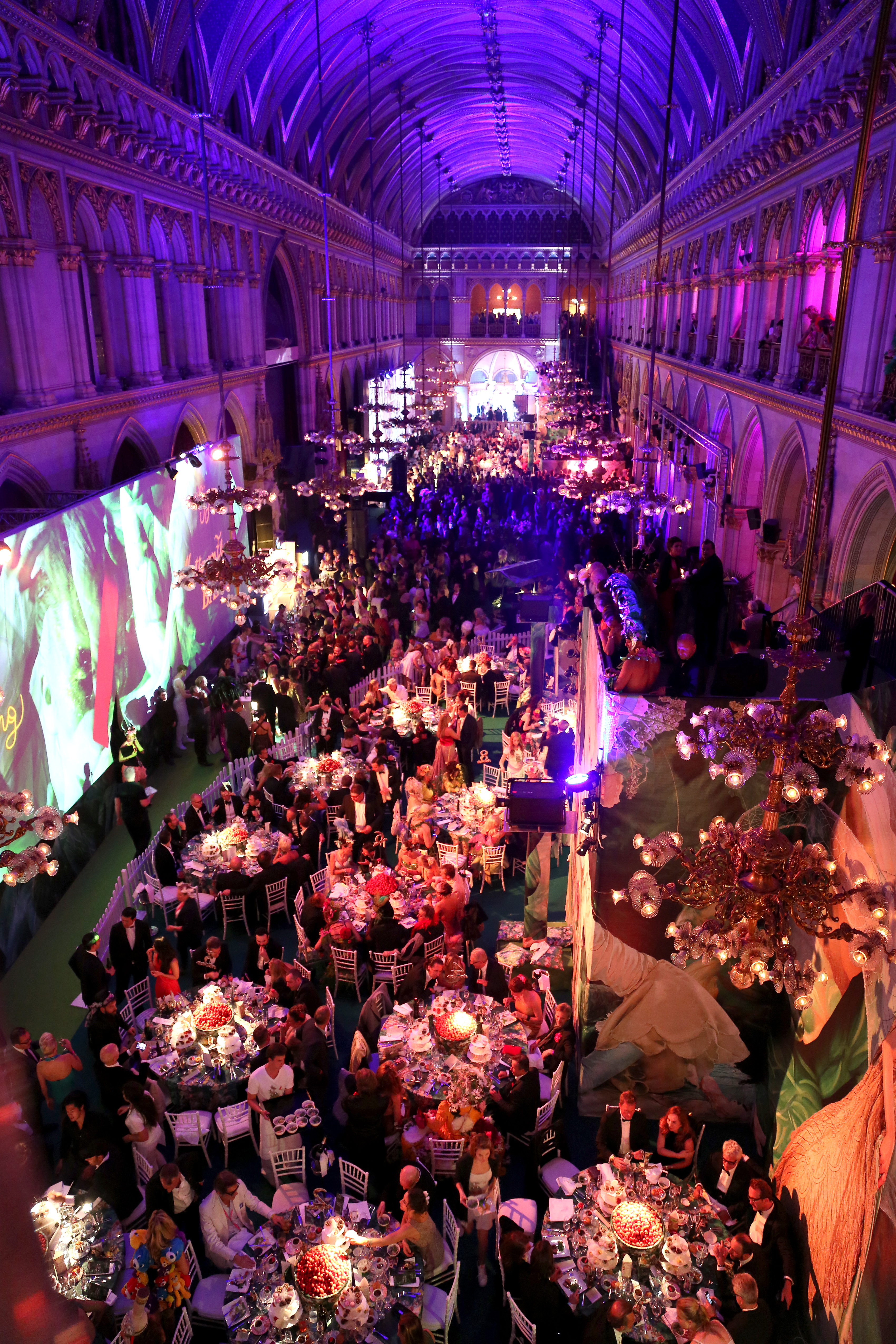 Life Ball 2014 at the city hall of Vienna, Vienna, Austria.